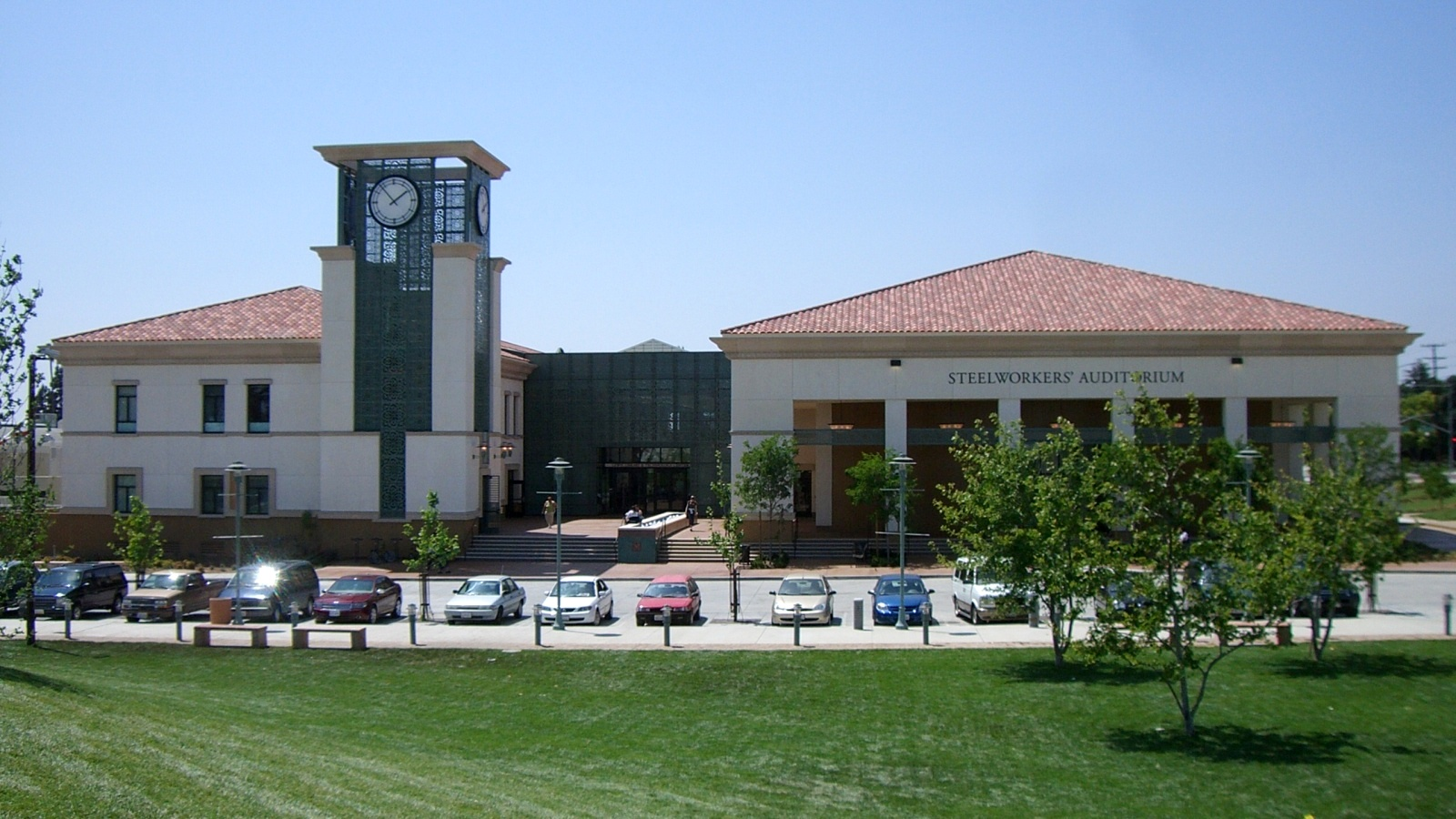 Exterior shot of the main entrance of the Lewis Library and Technology Center in Fontana, California.